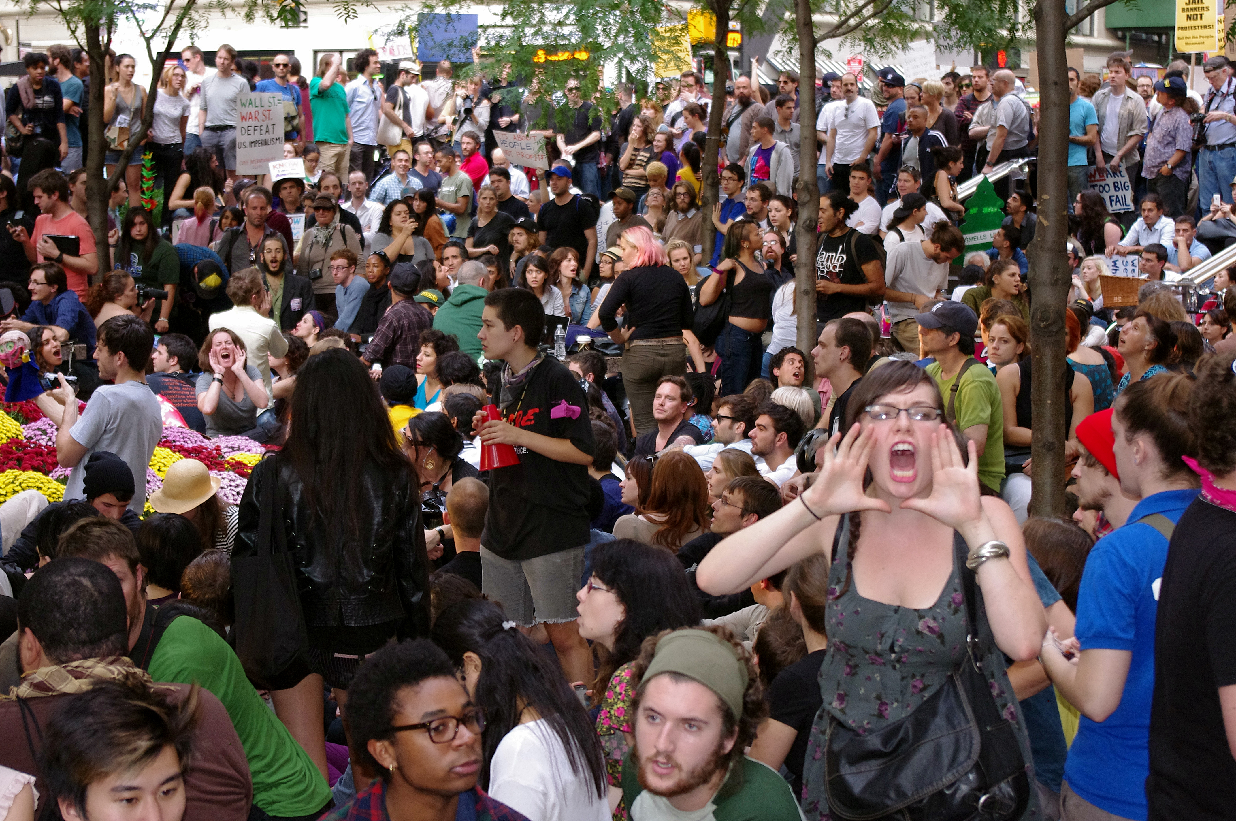 Friday, Day 14 of Occupy Wall Street - photos from the camp in Zuccotti Park